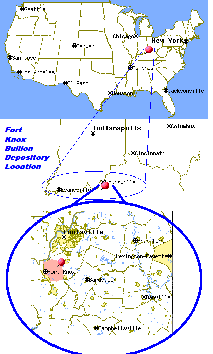 Fort Knox Bullion Depository Location